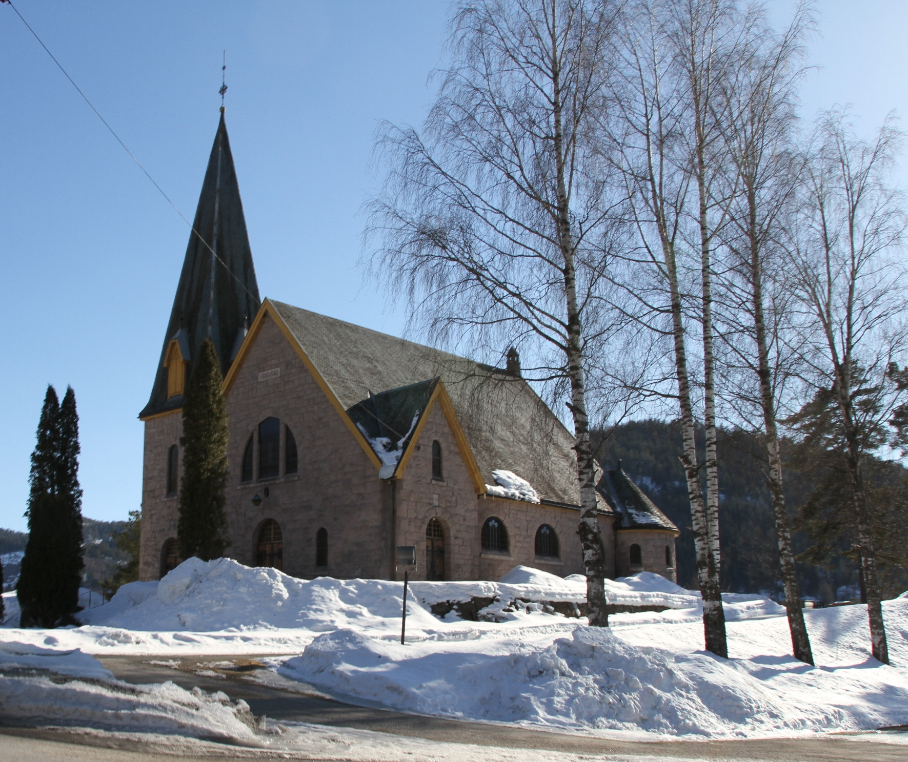 Image from the town of Kviteseid, center of Kviteseid municipality - Telemark county. Norway.